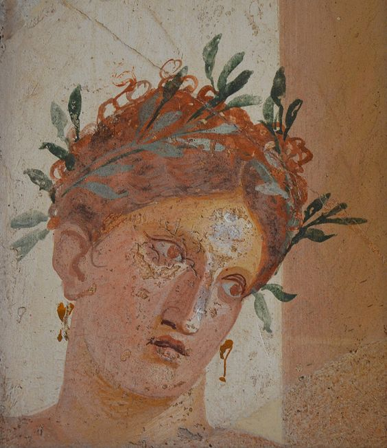 Roman fresco of a woman with red hair wearing a garland of olives, from Herculaneum, made sometime before the city's destruction in 79 AD by Mount Vesuvius (which also destroyed Pompeii).